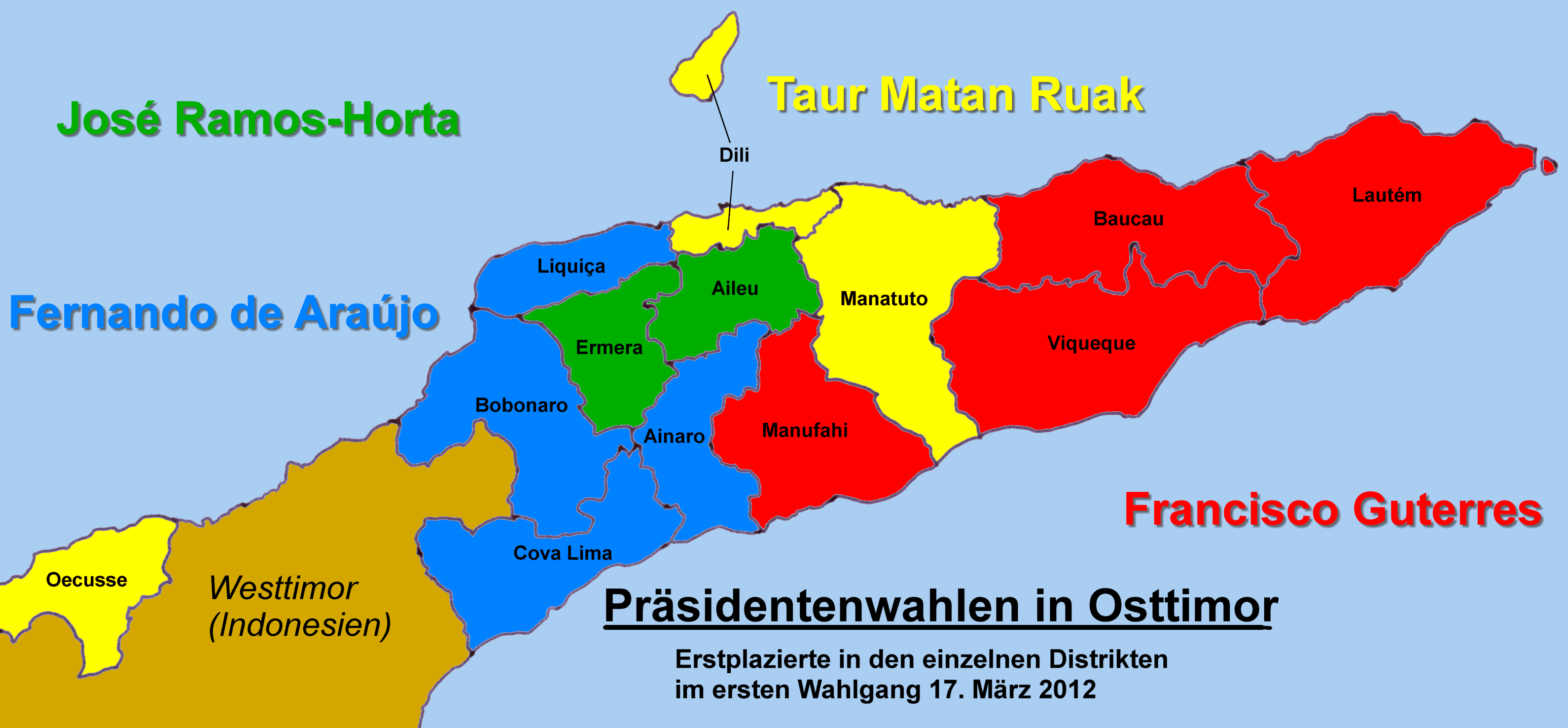 Results of president elections in East Timor 2012, first round. Strongest candidat in each district.